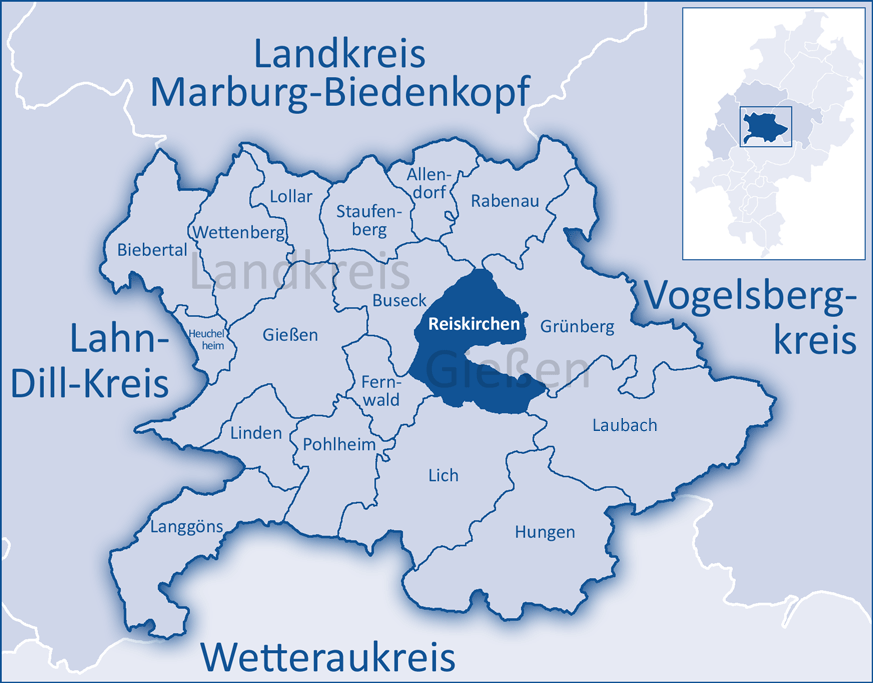 The map shows a district in the area of Gießen (district)